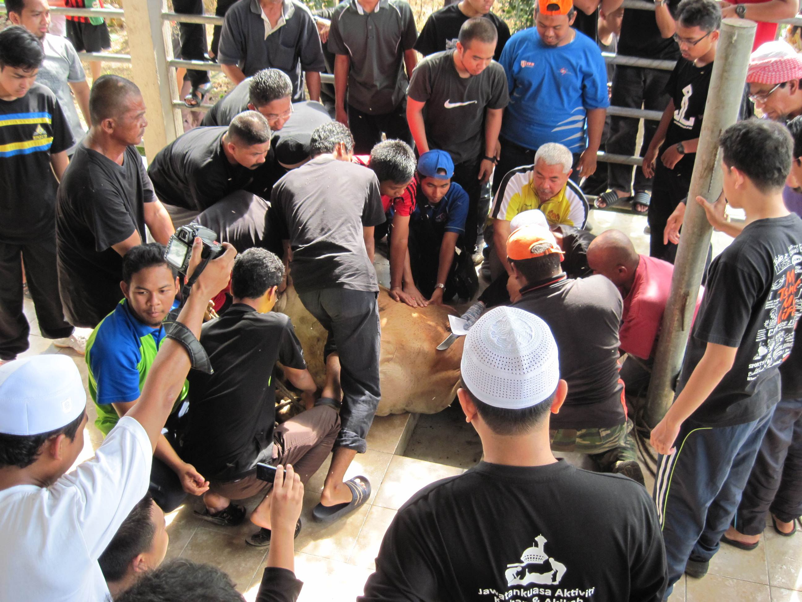 Korban lembu di ladang 16, UPM, Malaysia.